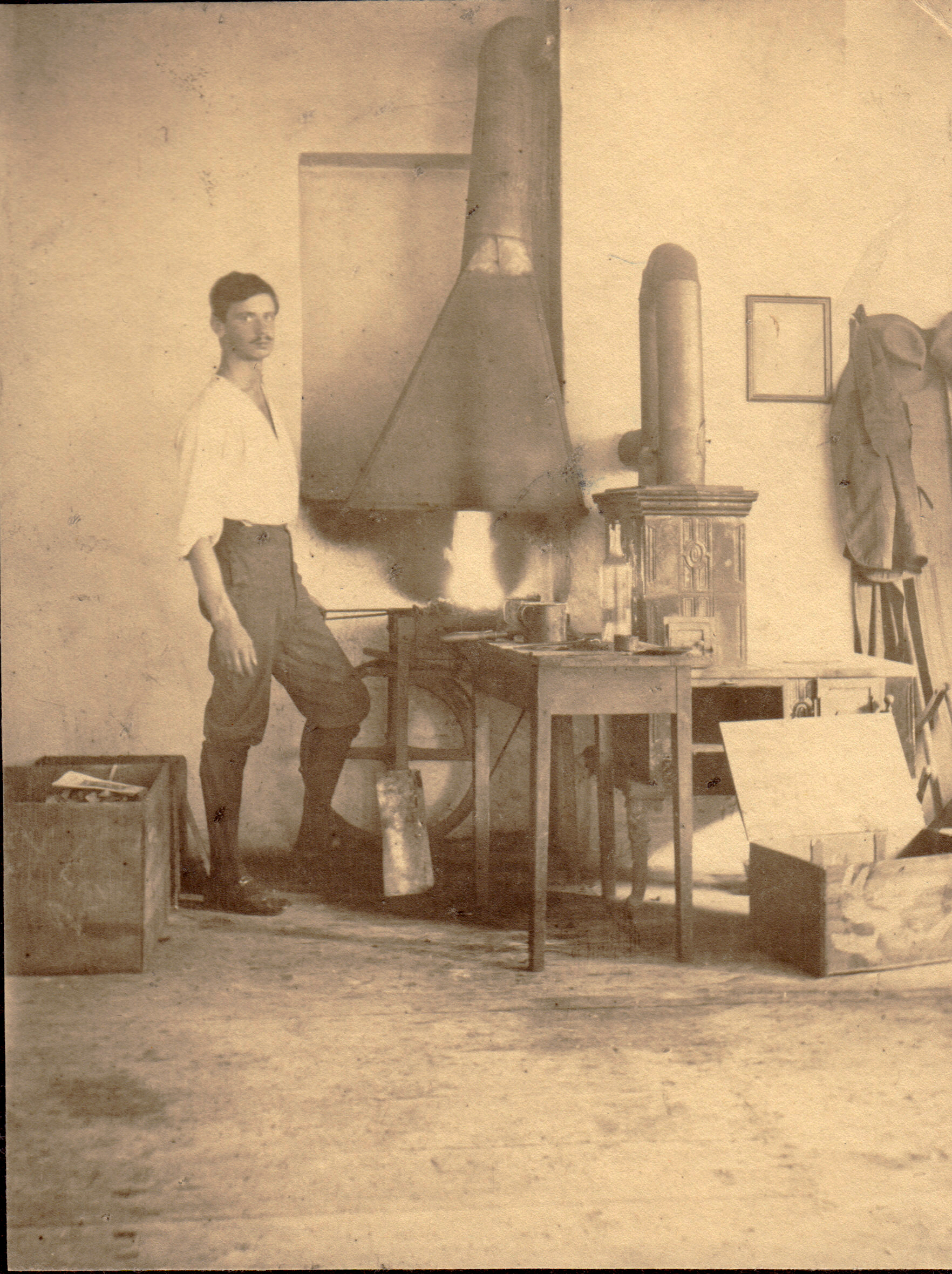 Der Kunsthandwerker Georg Mendelssohn in seiner Werkstatt in Hellerau